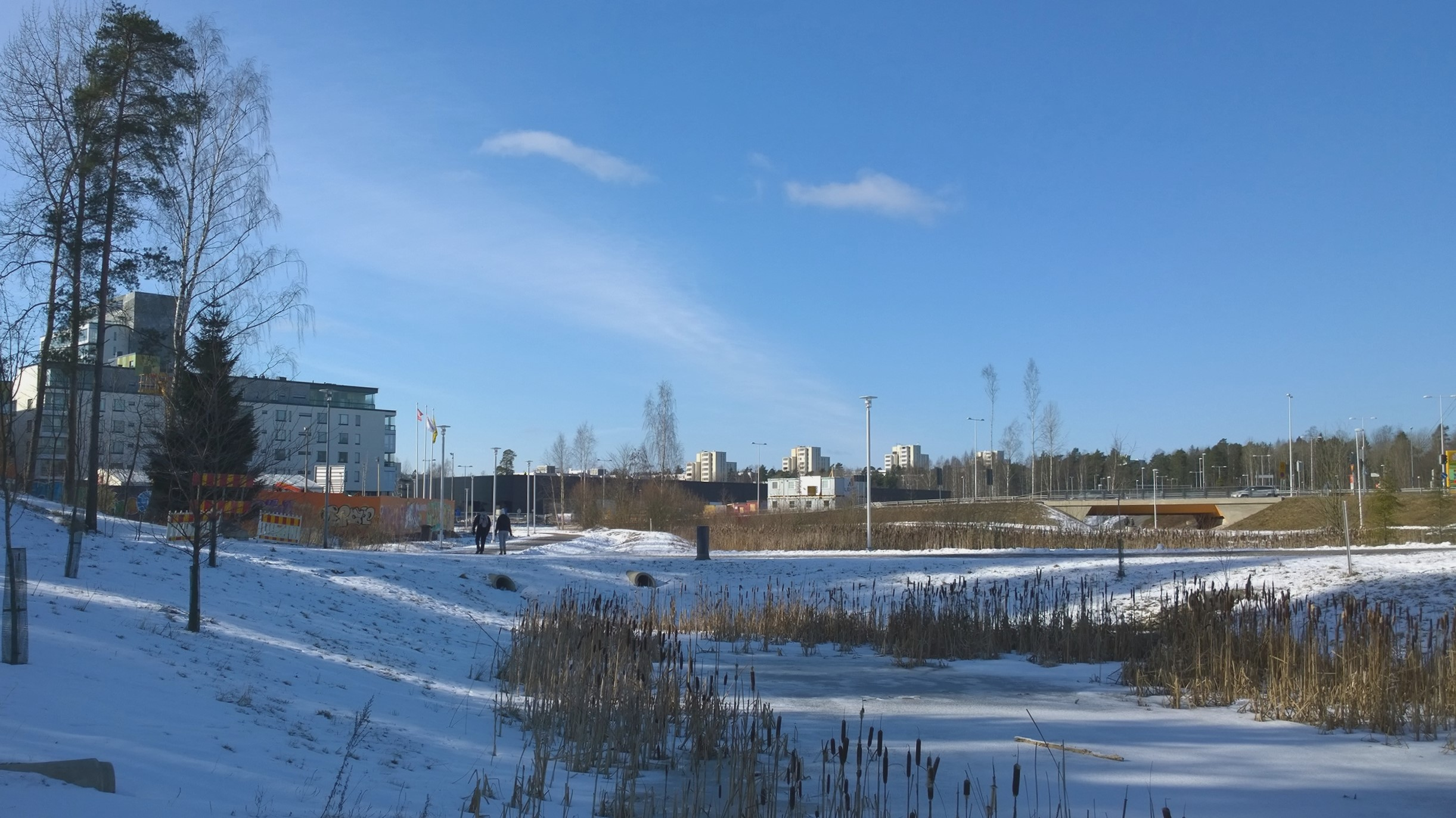 This area will see great changes as Espoonlahti Center is being built between 2016 and 2020. In the background tall apartment buildings of Kivenlahti.